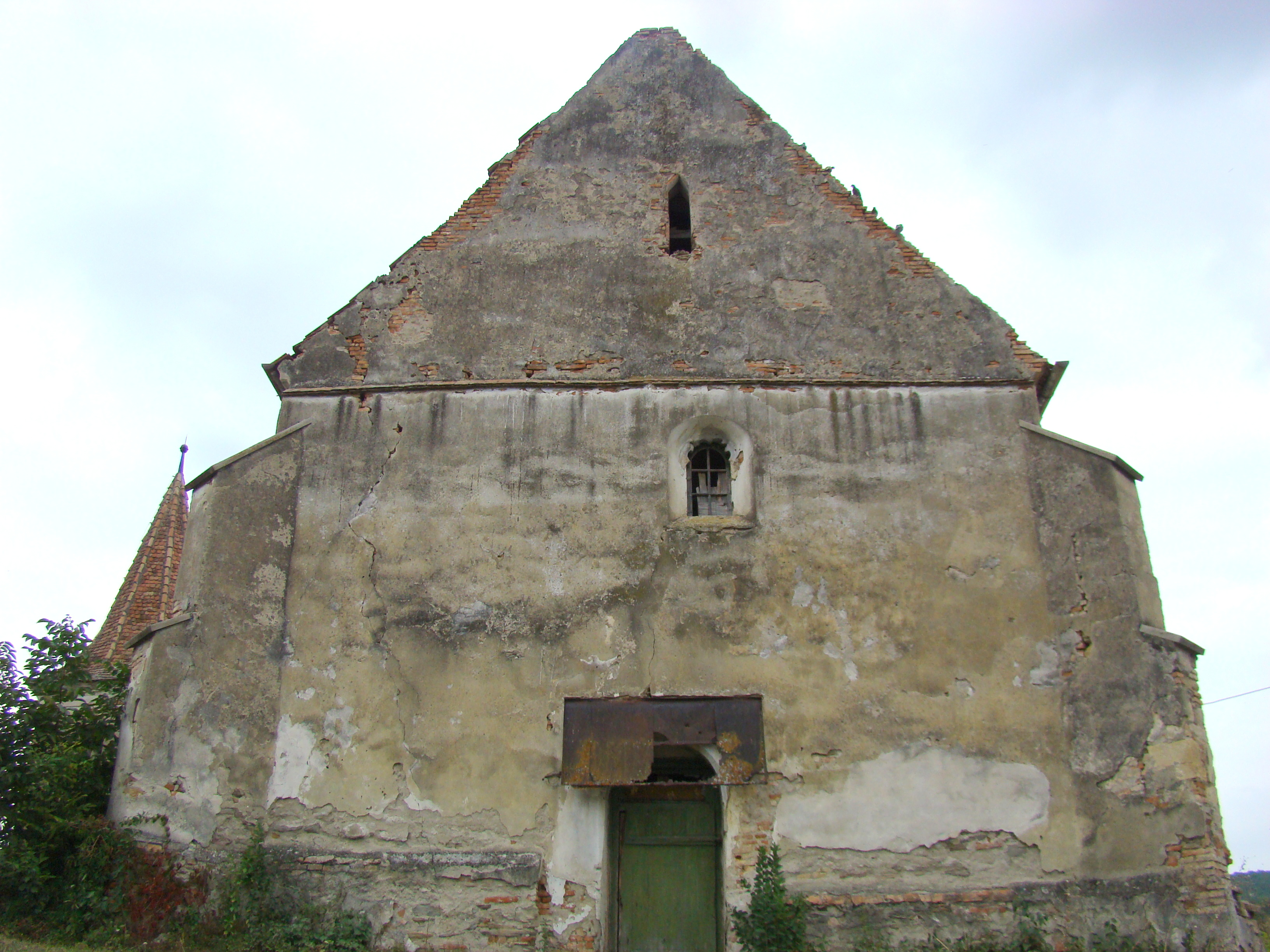 Evangelical Lutheran Church in Veseuș, Alba county, Romania 01